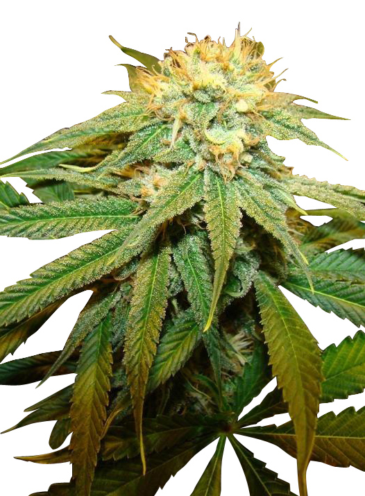 Afghan Cannabis